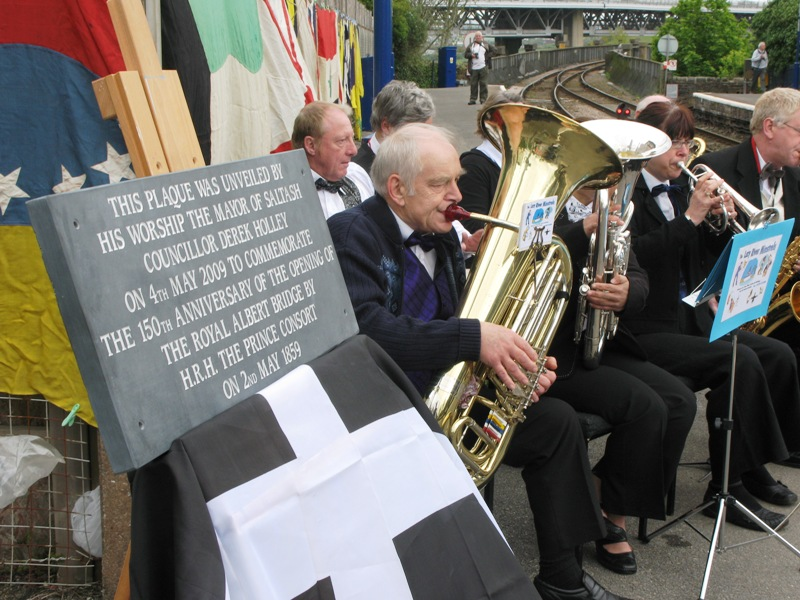 The commemorative plaque unveiled on 4 May 2009 by the mayor of Saltash, Cornwall, United Kingdom. After the ceremony it is to be mounted on the opposite platform next to a similar one unveiled by his predecessor 25 years earlier.